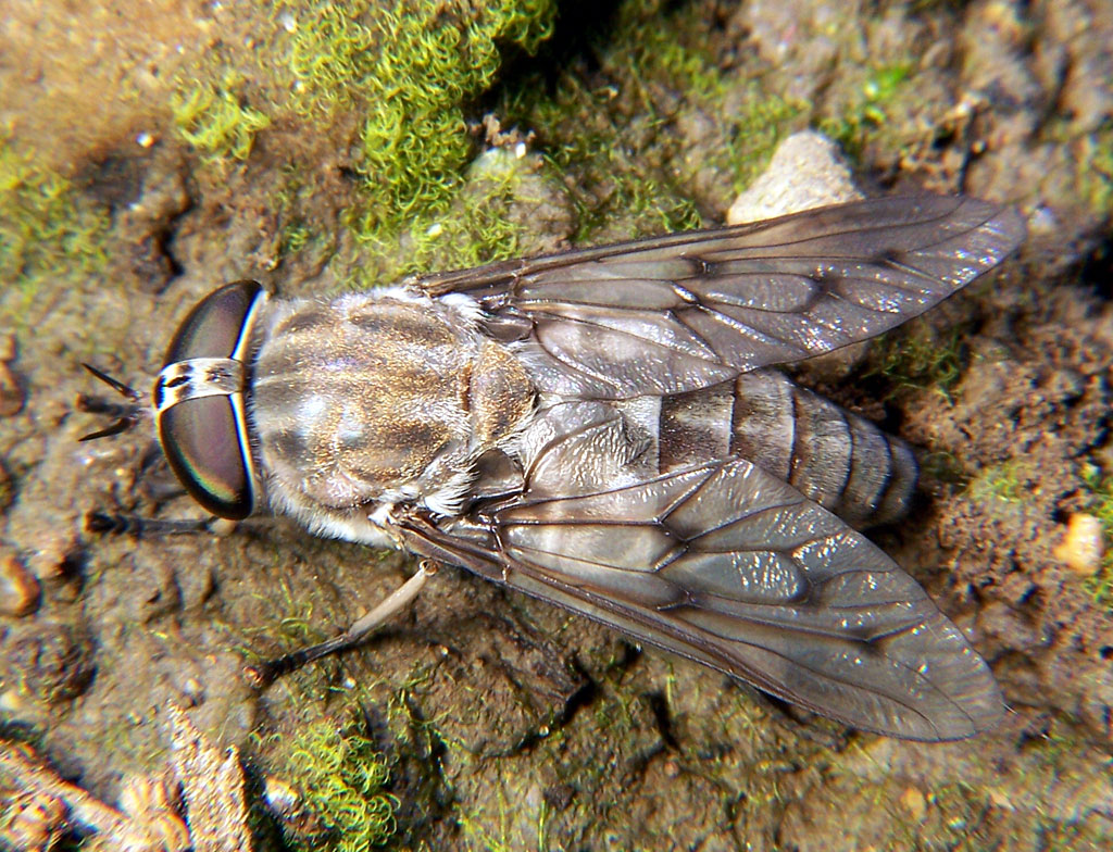 Horse fly, Diptera family Tabanidae, Tabanus sp. Location: Winfield IL USA